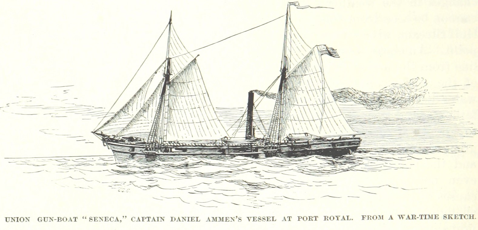 The Union gunboat USS Seneca as she appeared at the Battle of Port Royal